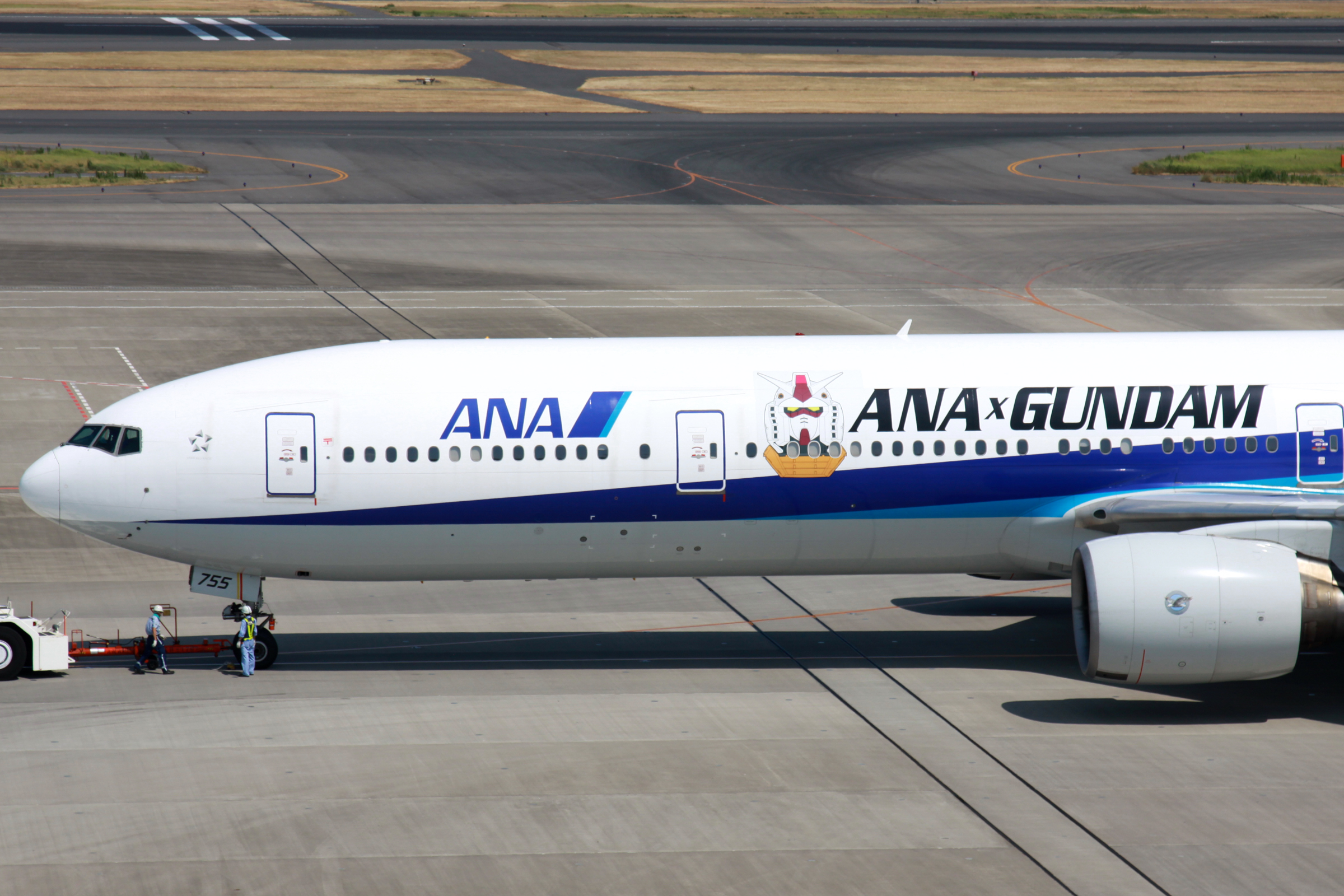 Tokyo International Airport, Boeing 777-381, c/n:28275, All Nipppon Airways, "GUNDAM JET"